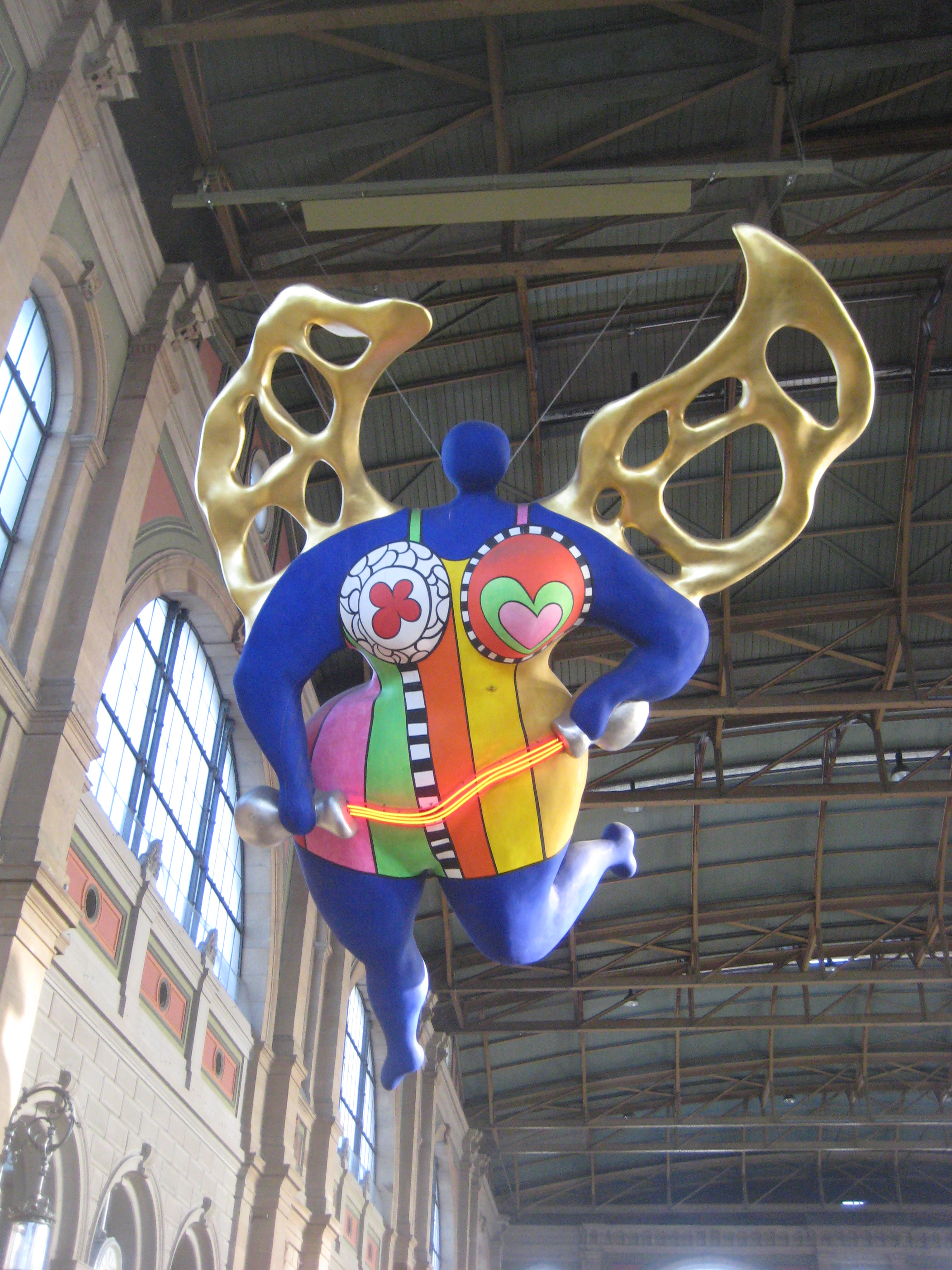 L'Ange Protecteur in the Hall of the Zurich Main Station. Work of Niki de Saint Phalle